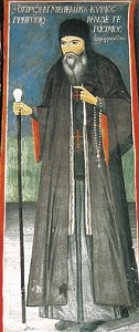 Gregory of Melnik Fresco